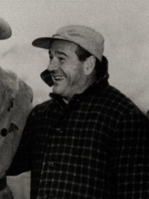 L. to R. : Aaron Rosenberg (producer), James Stewart, Anthony Mann (director) & William H. Daniels (cinematographer) on the set of The Far Country - publicity still